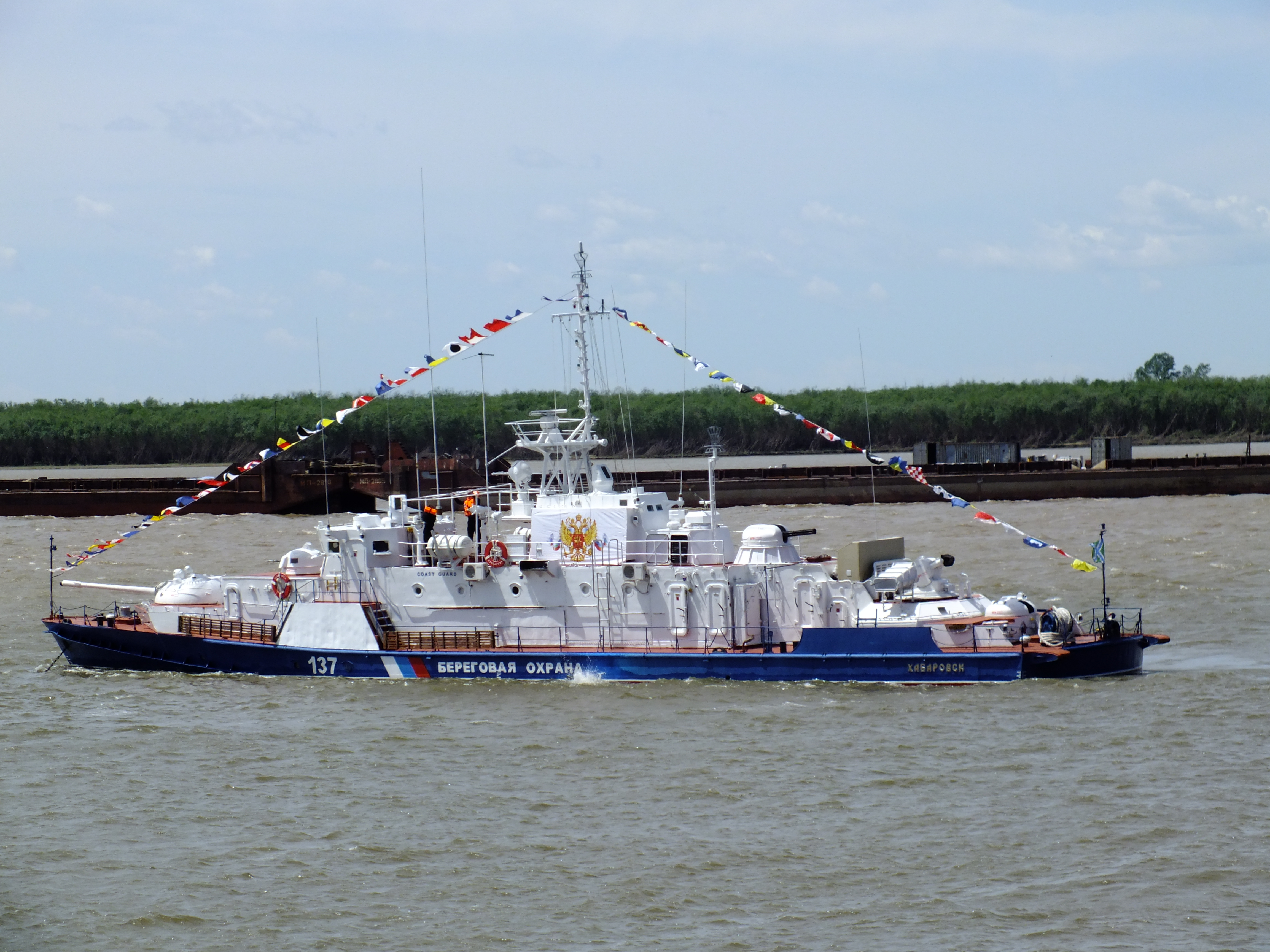 Amur Military Flotilla